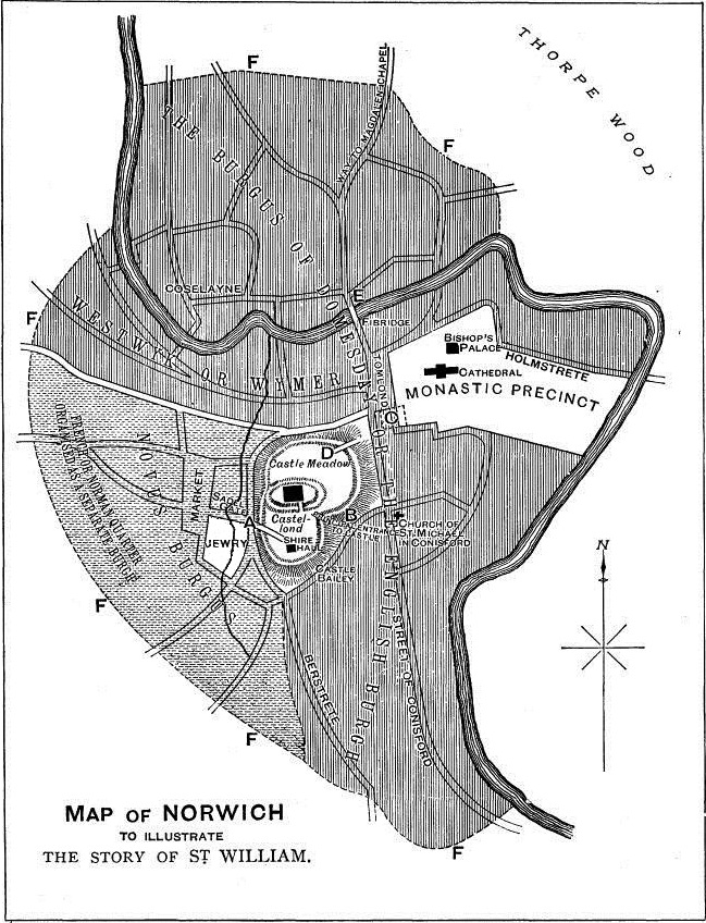 map of Norwich in the 1140s, reconstructed in 1896